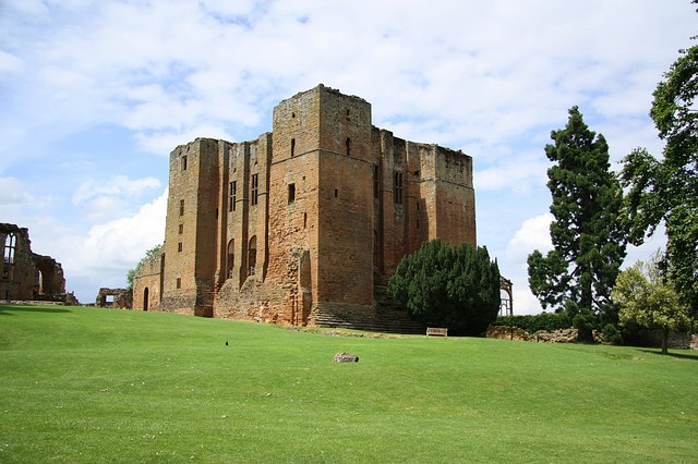 Kenilworth Castle keep The oldest part of Kenilworth Castle, started by Geoffrey de Clinton in the 1120s and successively added to by King John c1210 and Robert Dudley c1570